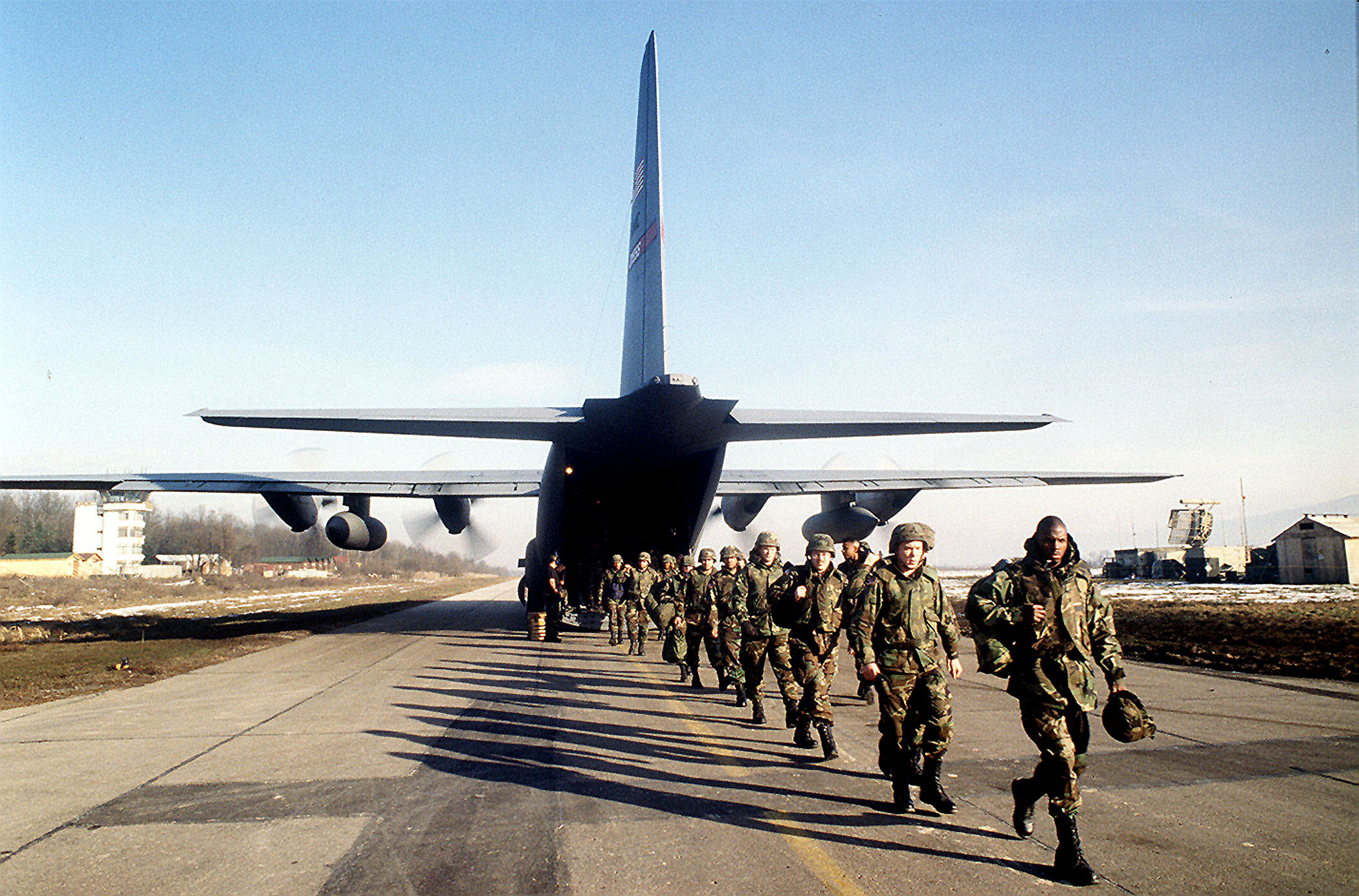 U.S. military personnel walk single file off of a U.S. Air Force C-130 Hercules at Tuzla Air Base, Bosnia and Herzegovina, on Feb. 24, 1998, after a flight from Ramstein Air Base, Germany. The aircraft is bringing in personnel, equipment and supplies to support the Stabilization Force in Operation Joint Guard. The Hercules and its crew are deployed from the 40th Airlift Squadron, Dyess Air Force Base, Texas.